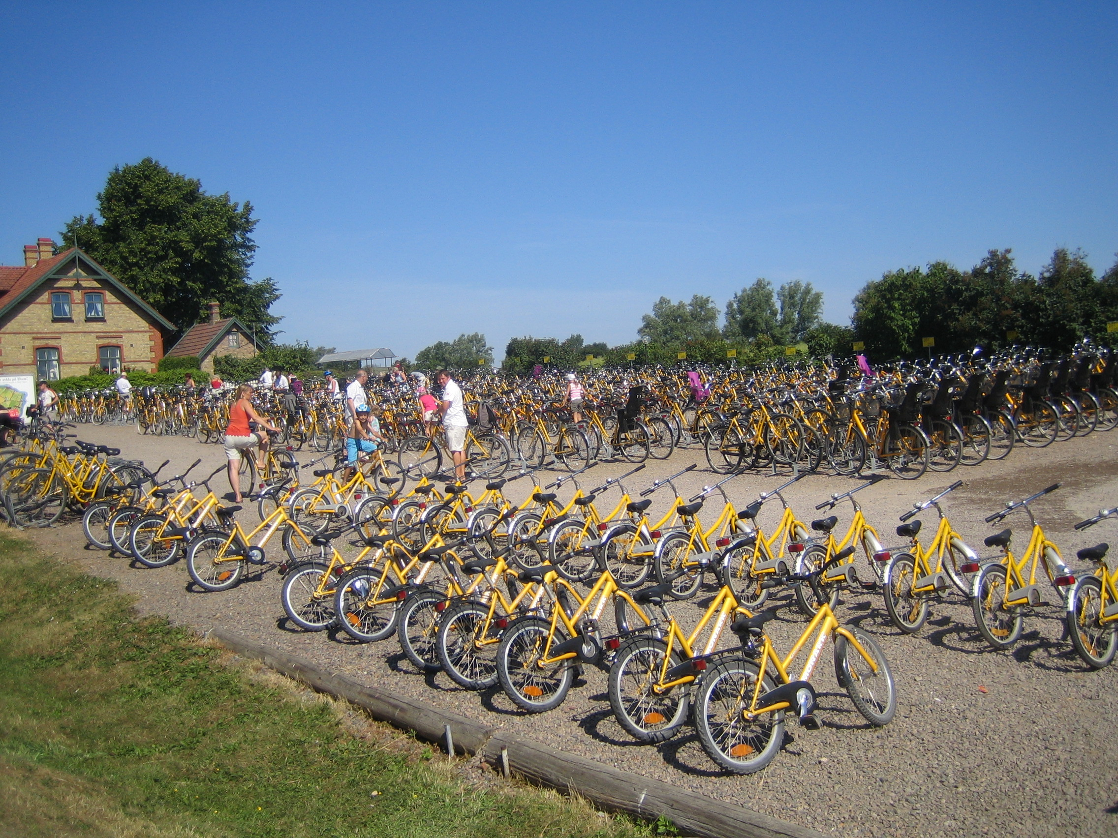 1500 bicycles in Ven.